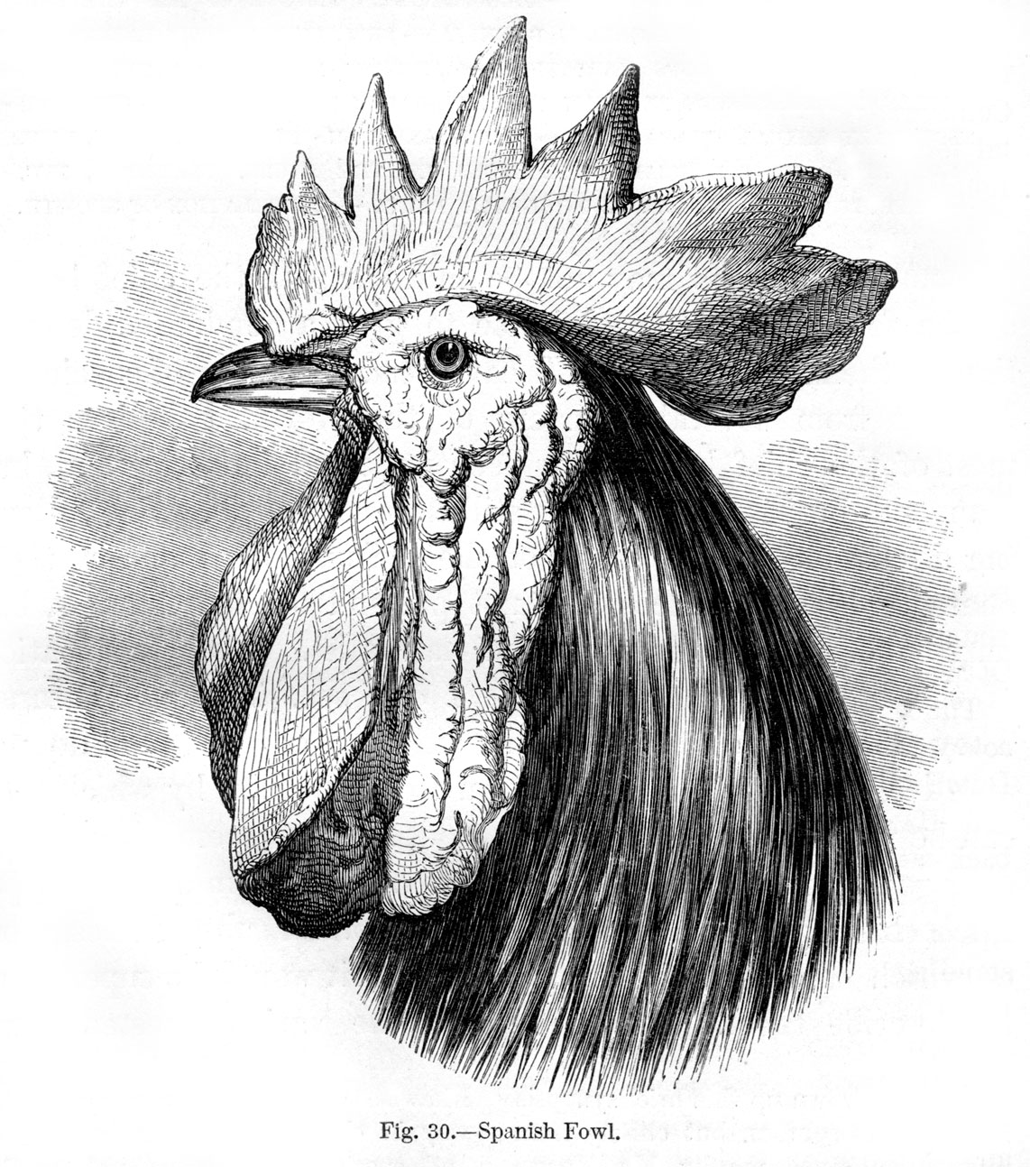 Figure 30 - "Spanish Fowl" from Charles Darwin's book Variation of Animals and Plants Under Domestication published in 1868.